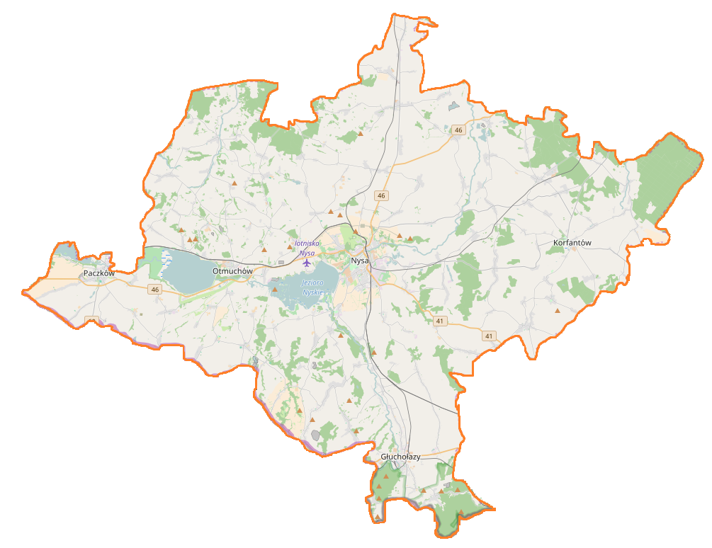 Location map of powiat nyski, Poland.